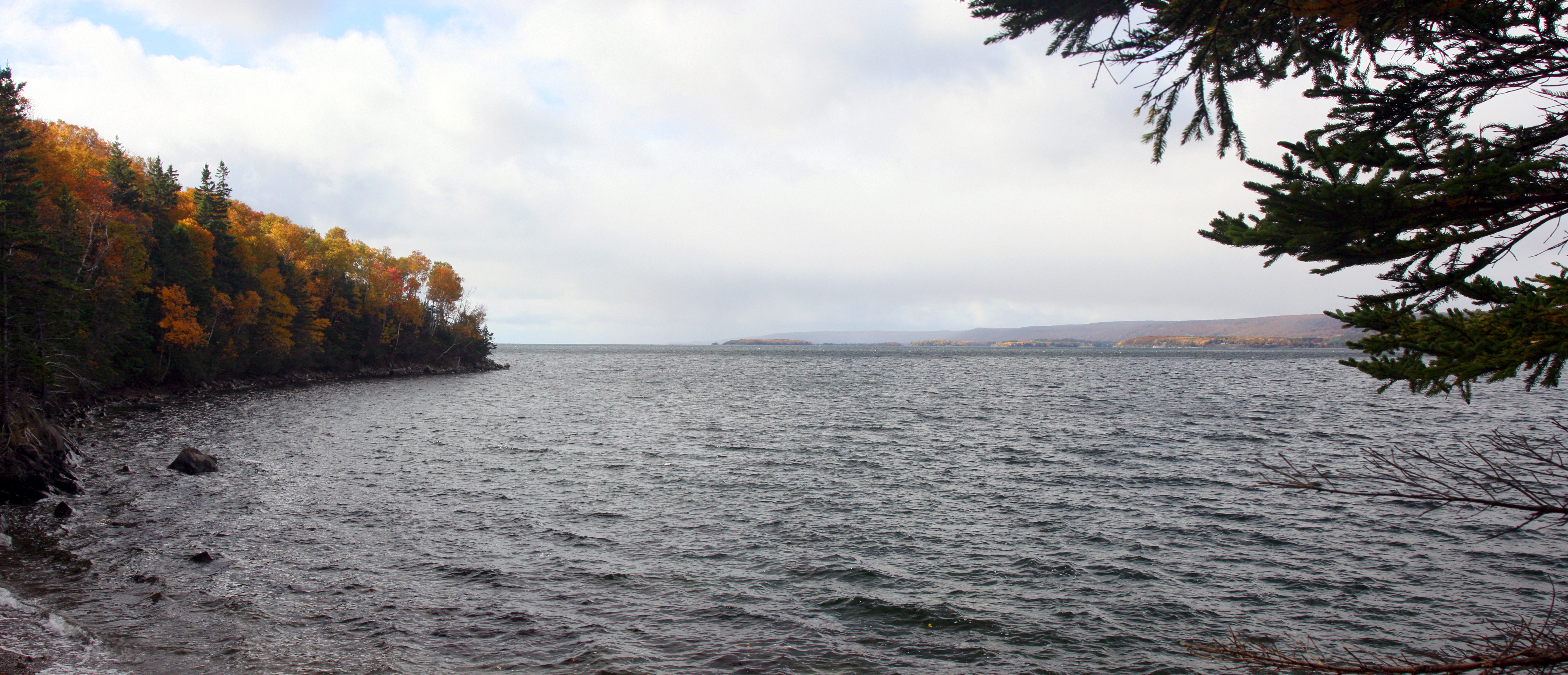 East Bay is a bay of the Bras d'Or Lake on Cape Breton Island in the Canadian province of Nova Scotia. It lies entirely within Cape Breton County. East Bay is one of three long narrow arms that extend to the east of the main body of the Bras d'Or Lake, the others being St. Andrews Channel and Great Bras d'Or Channel. As East Bay is part of the Bras d'Or Lake system and the lake is essentially a fiordal system connected to the North Atlantic via two restricted channels at the Great Bras d'Or Channel north of Boularderie Island and the Little Bras d'Or Channel to south of Boularderie Island, the waters of East Bay are brackish, partially fresh/ salt water. East Bay opens to the south-west directly onto the Bras d'Or Lake and lies between the Boisdale Hills to the north and the East Bay Hills to the south. The bay measures 8.3 kilometres (5.2 mi) wide at its mouth, between Benacadie Point to the north, and Middle Cape to the south and runs easterly 41 kilometres (25 mi) to its terminus at Portage. East Bay has 77.9 kilometres (48.4 mi) of shoreline. The bay's shores are generally heavily wooded and consist mainly of bold and rocky shorelines interspersed with numerous barrachois (barrier) points and beaches. Glacial drumlin deposits form a group of islands along the northern shore of East Bay. The narrower eastern end of the bay is bridged by the East Bay Sandbar, running east-west 1.25 kilometres (0.78 mi).